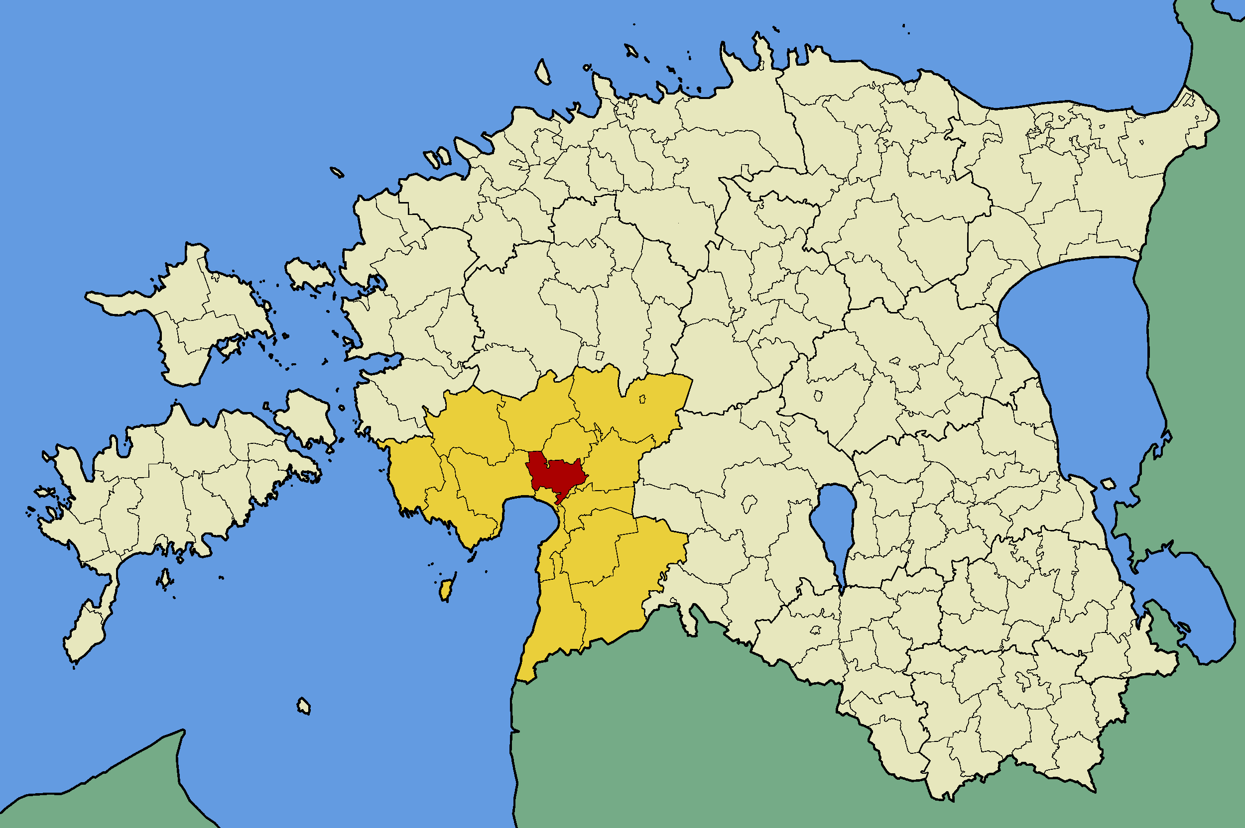 Map of Estonia with borders of municipalities (parishes). Pärnu county and Sauga municipality emphasized.